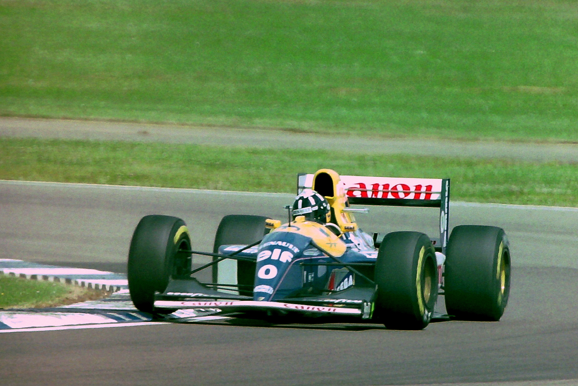 Damon Hill - Williams FW15C during practice for the 1993 British Grand Prix